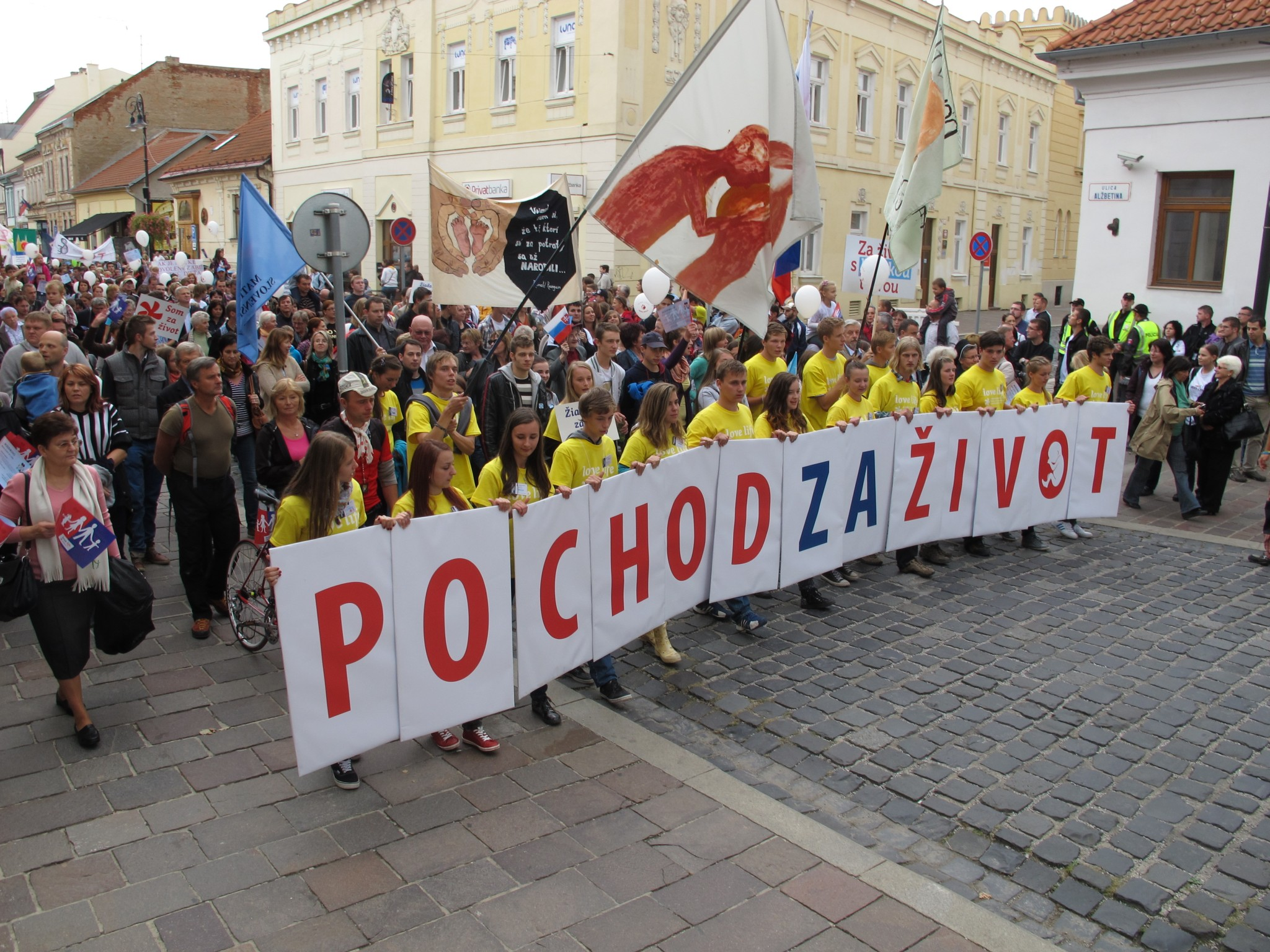 National march for Life Kosice 22.9.2013